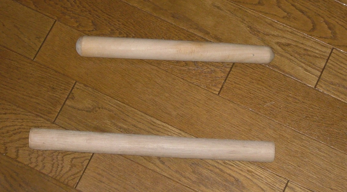 Japanese Rollingpin (麺棒) Photo taken 1 April 2006 by Kkkdc